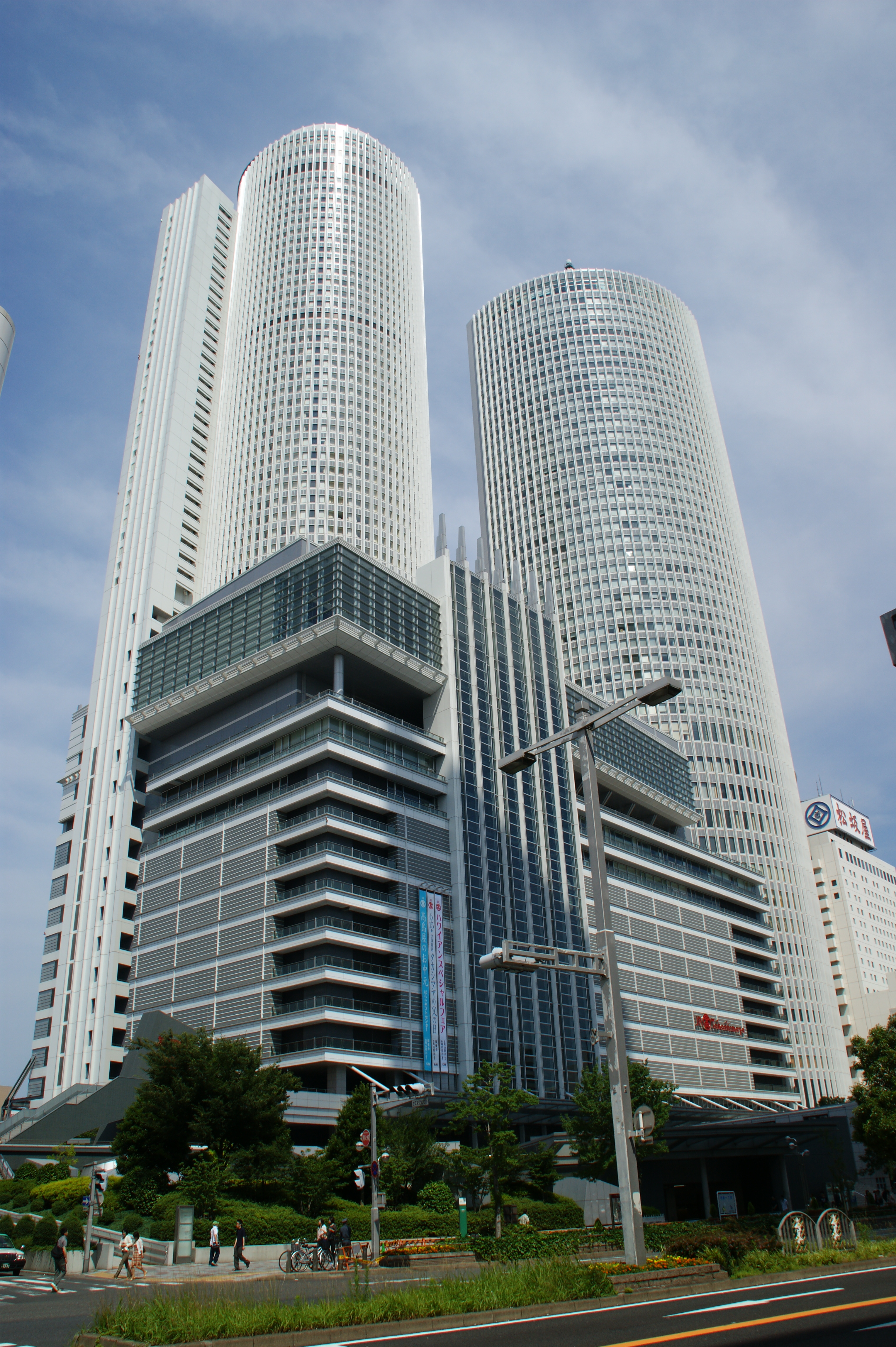 JR Central Towers (Nakamura Ward, Nagoya City, Aichi Prefecture, Japan)